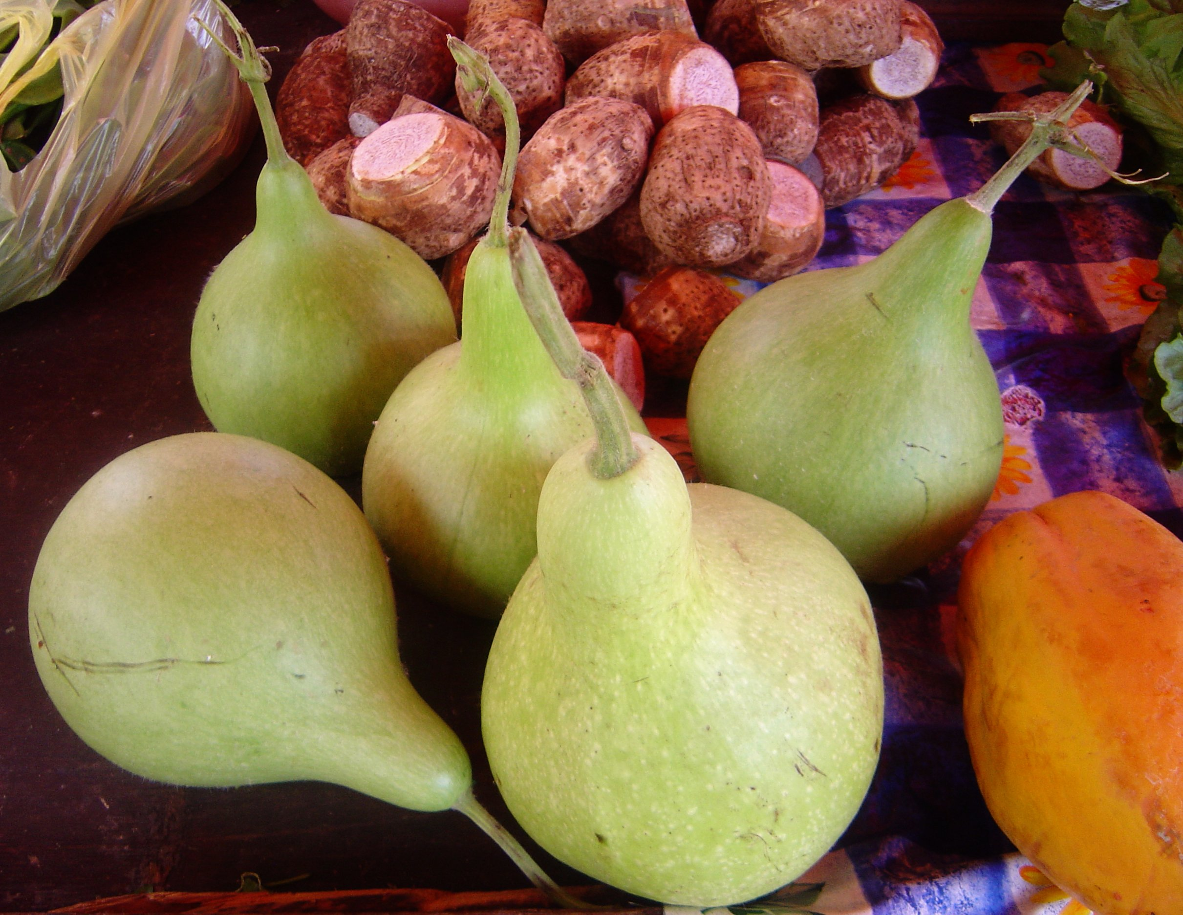 Lagenaria siceraria gourds sold on Réunion Island